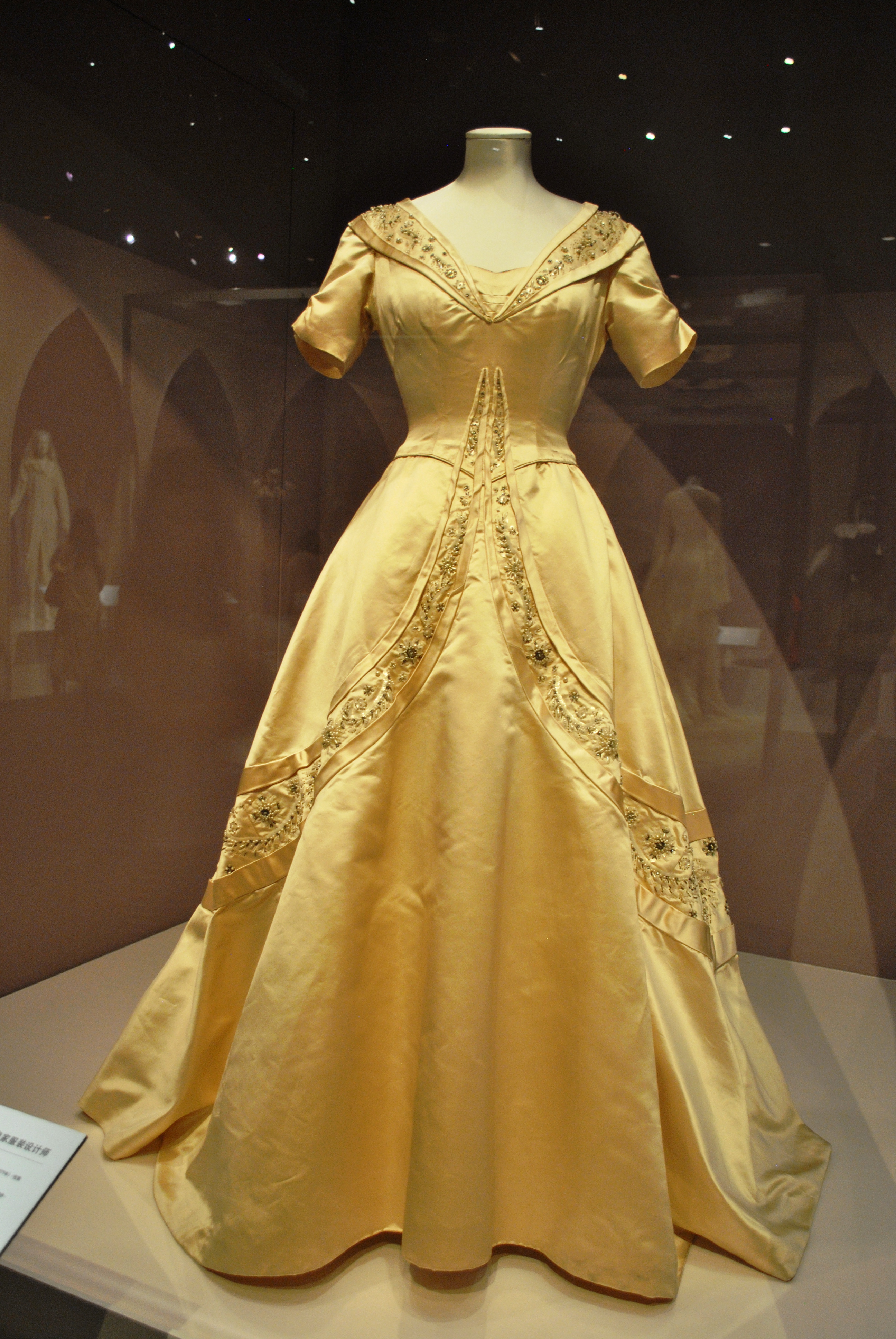 1951 wedding dress by Norman Hartnell